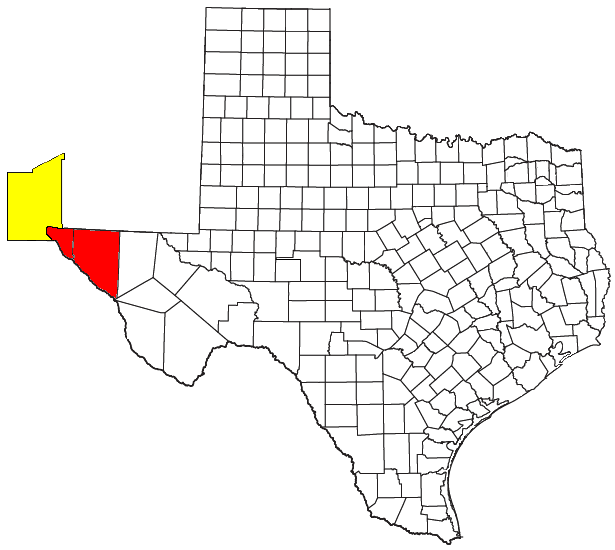 Locator map of El Paso-Las Cruces Combined Statistical Area in the Western Texas and Southern New Mexico, in the United States. The two components of the CSA are colored separately: El Paso, TX MSA: red Las Cruces, NM MSA (Doña Ana County) : yellow